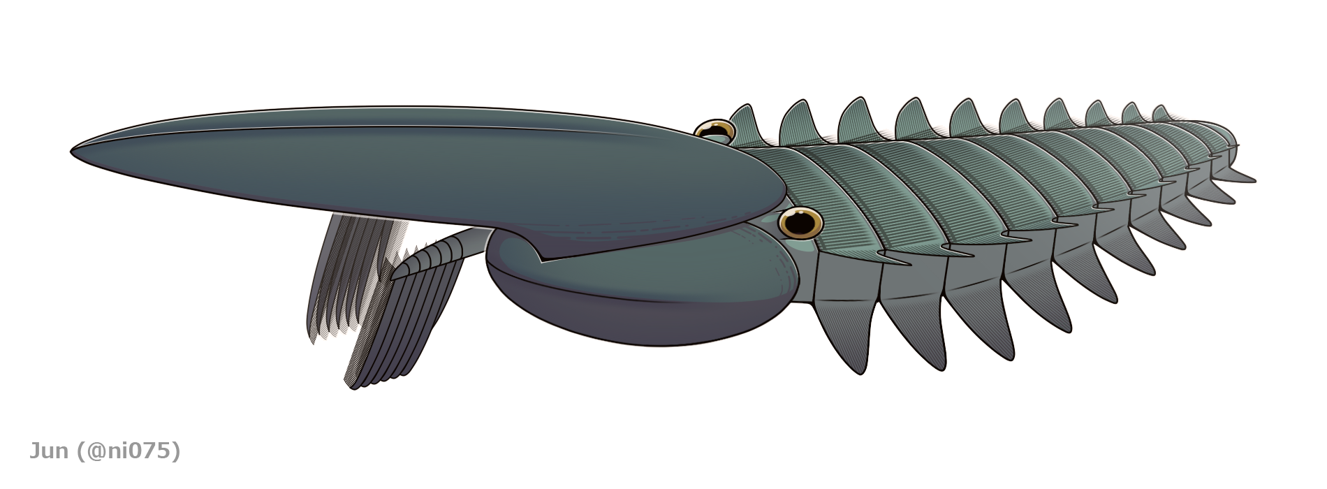 Reconstruction of Aegirocassis benmoulai (Aegirocassis benmoulae in original description), an ordovician hurdiid radiodont (dinocaridid、stem-group arthropod). Several characters (eyes, details of terminal tailpiece) are conjectural.